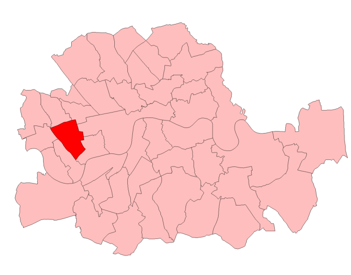 A map of Kensington South constituency within the London County Council area, as it existed from 1950 to 1974.